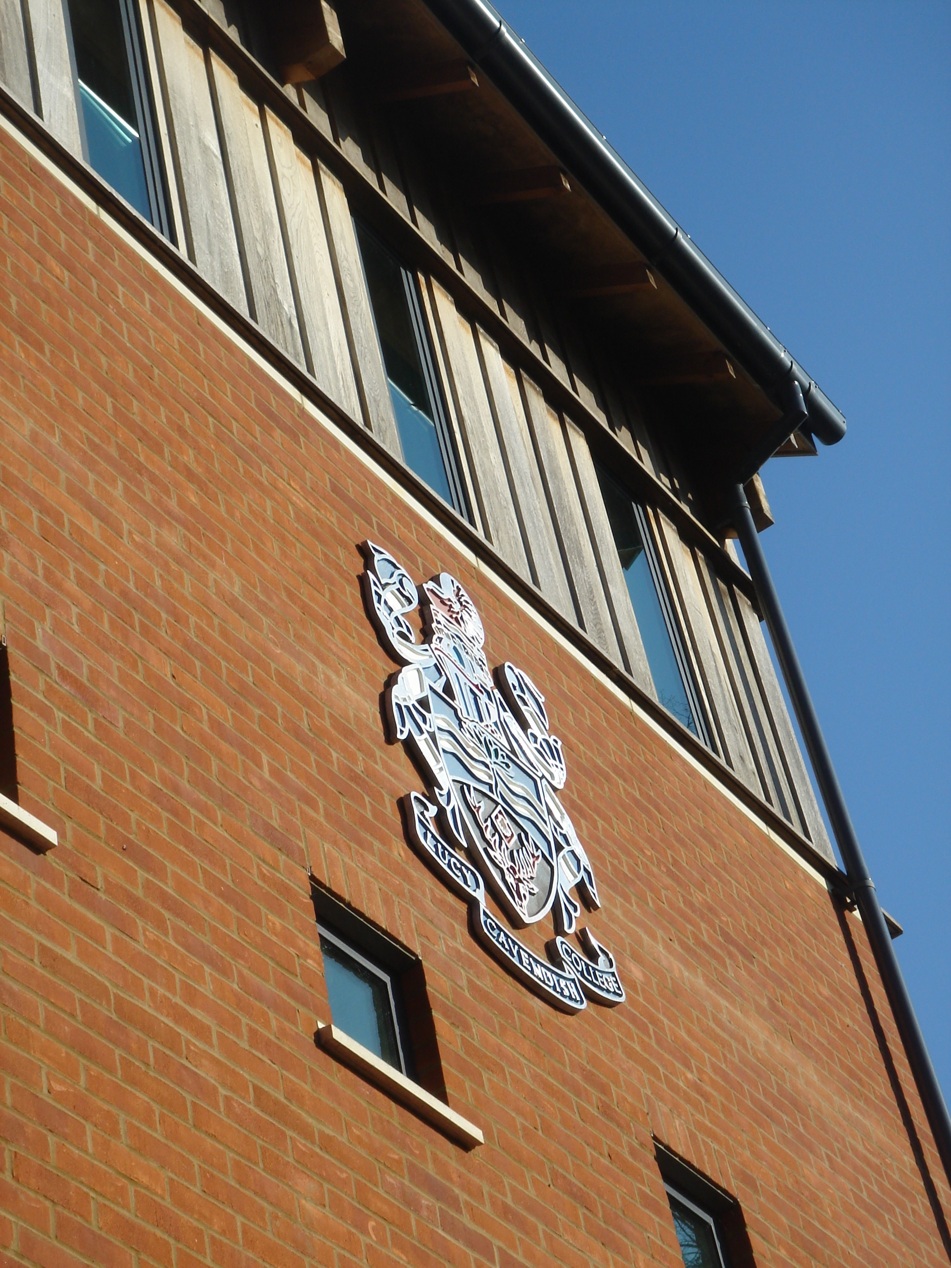 View of Lucy Cavendish College Library with college crest